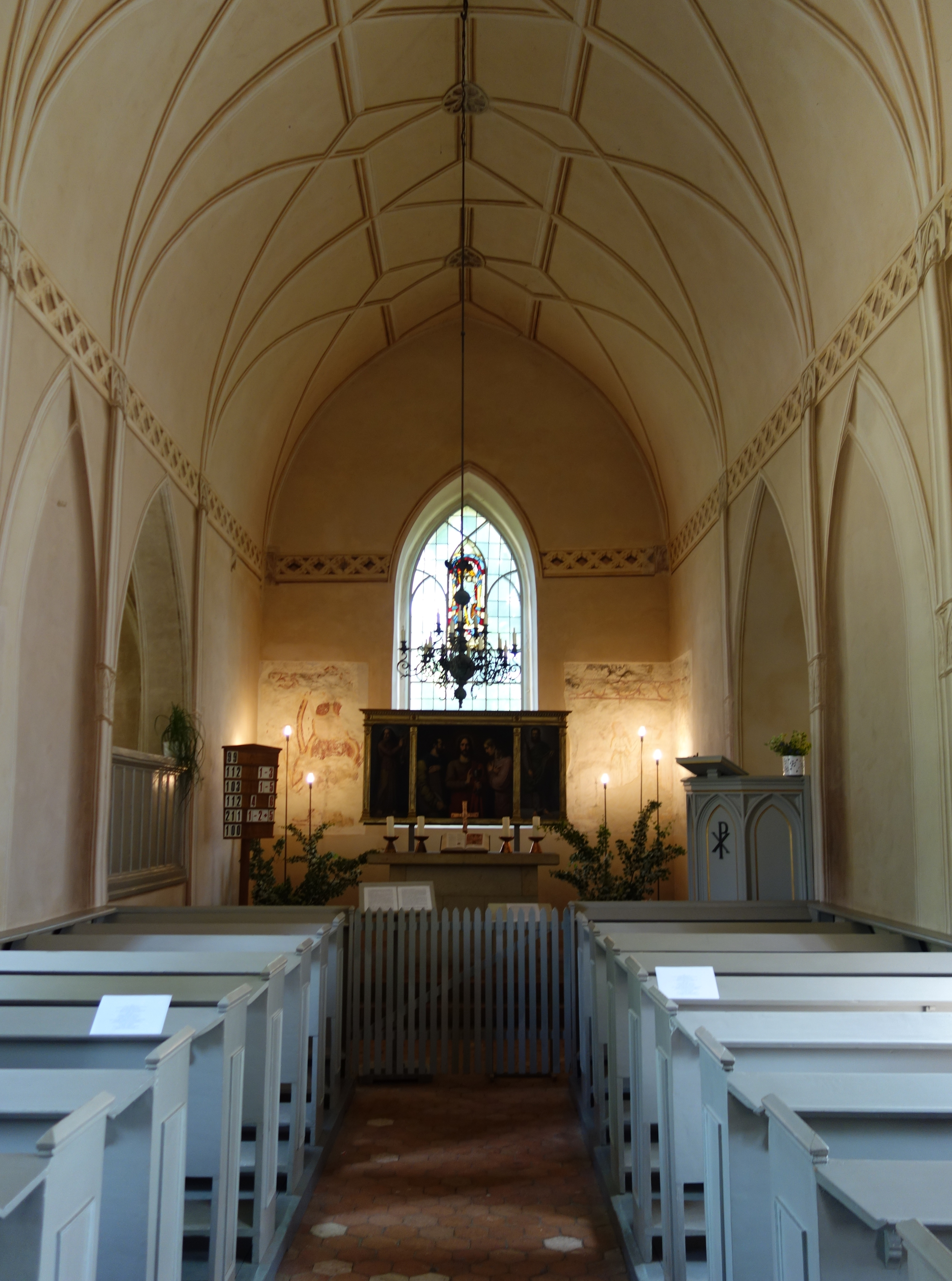 Eastern interior of church in Paretz, Ketzin municipality, Havelland district, Brandenburg state, Germany